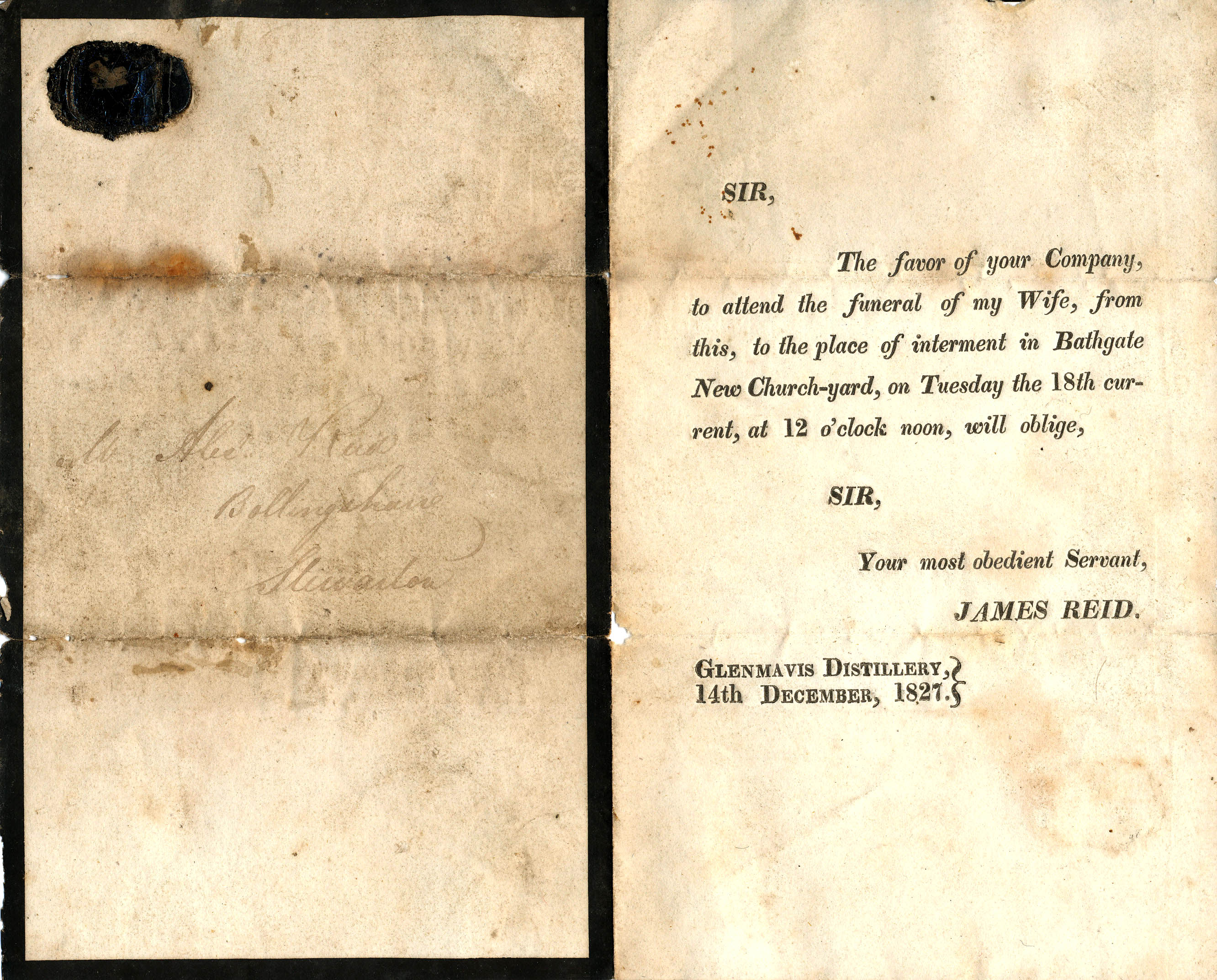 Funeral invitation to Alex Reid of Bollingshaw (sic), Stewarton, Ayrshire, Scotland.